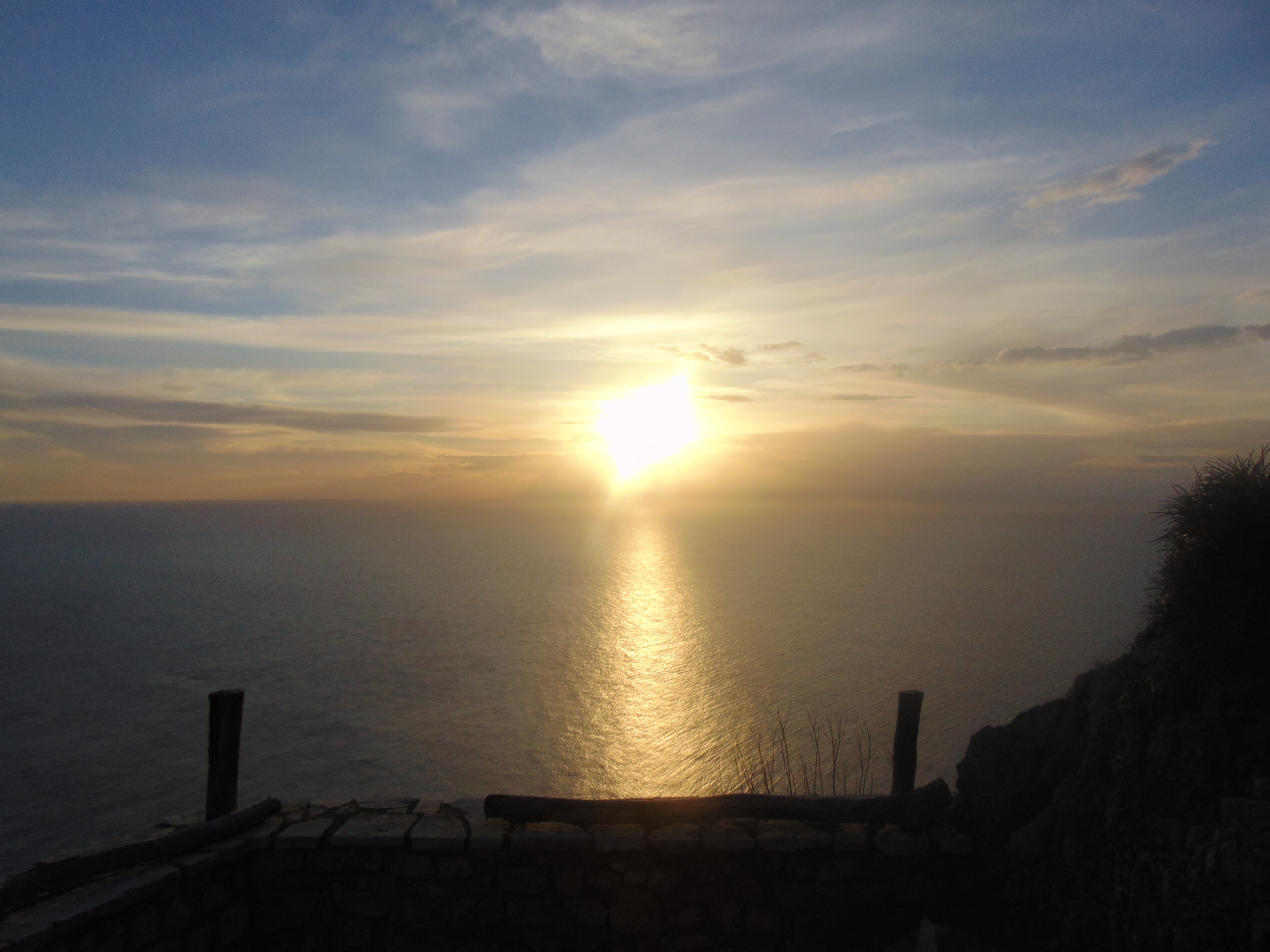 Sunset point, Chorio, Othoni island, Greece